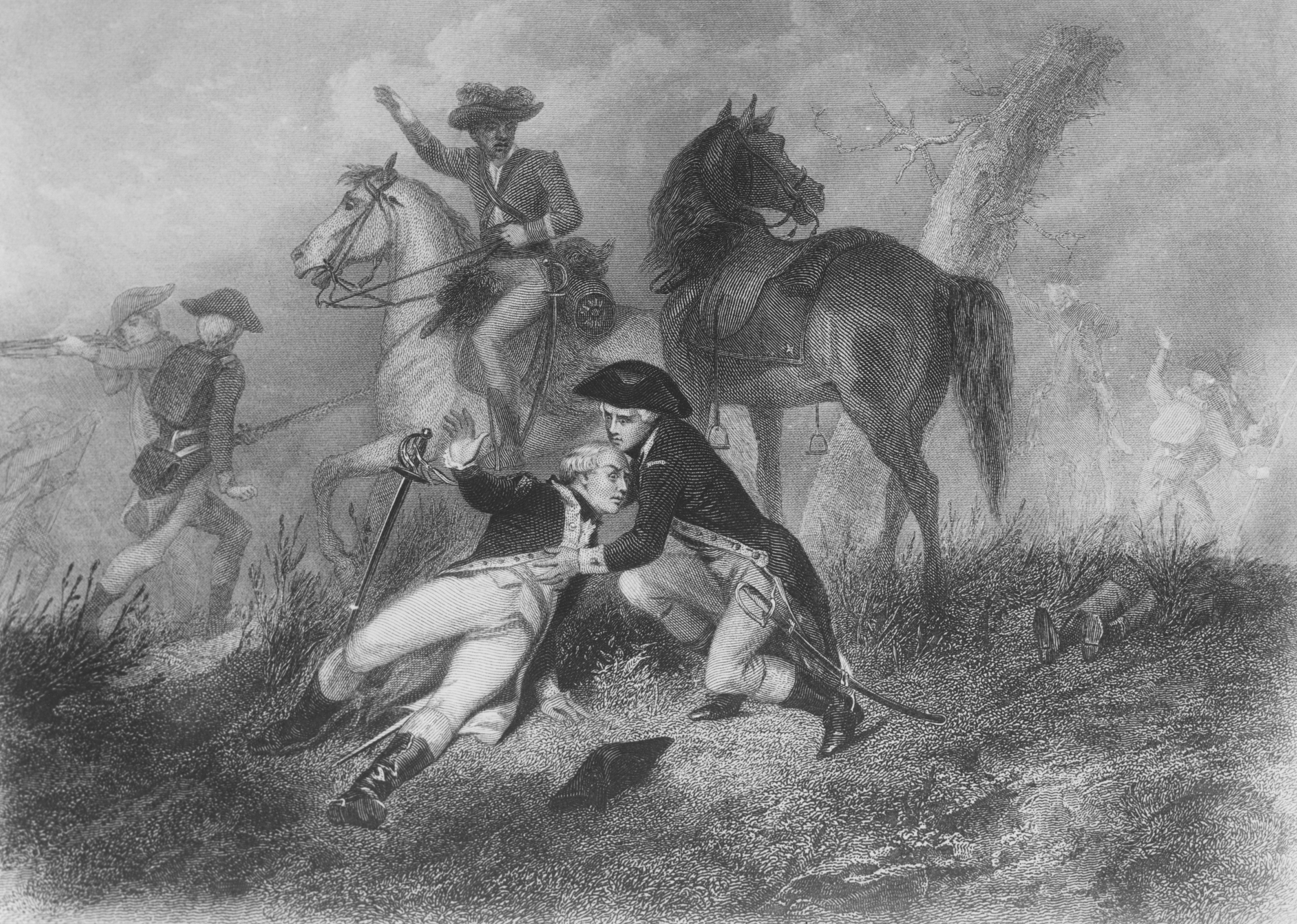 La Fayette wounded at the battle of Brandywine